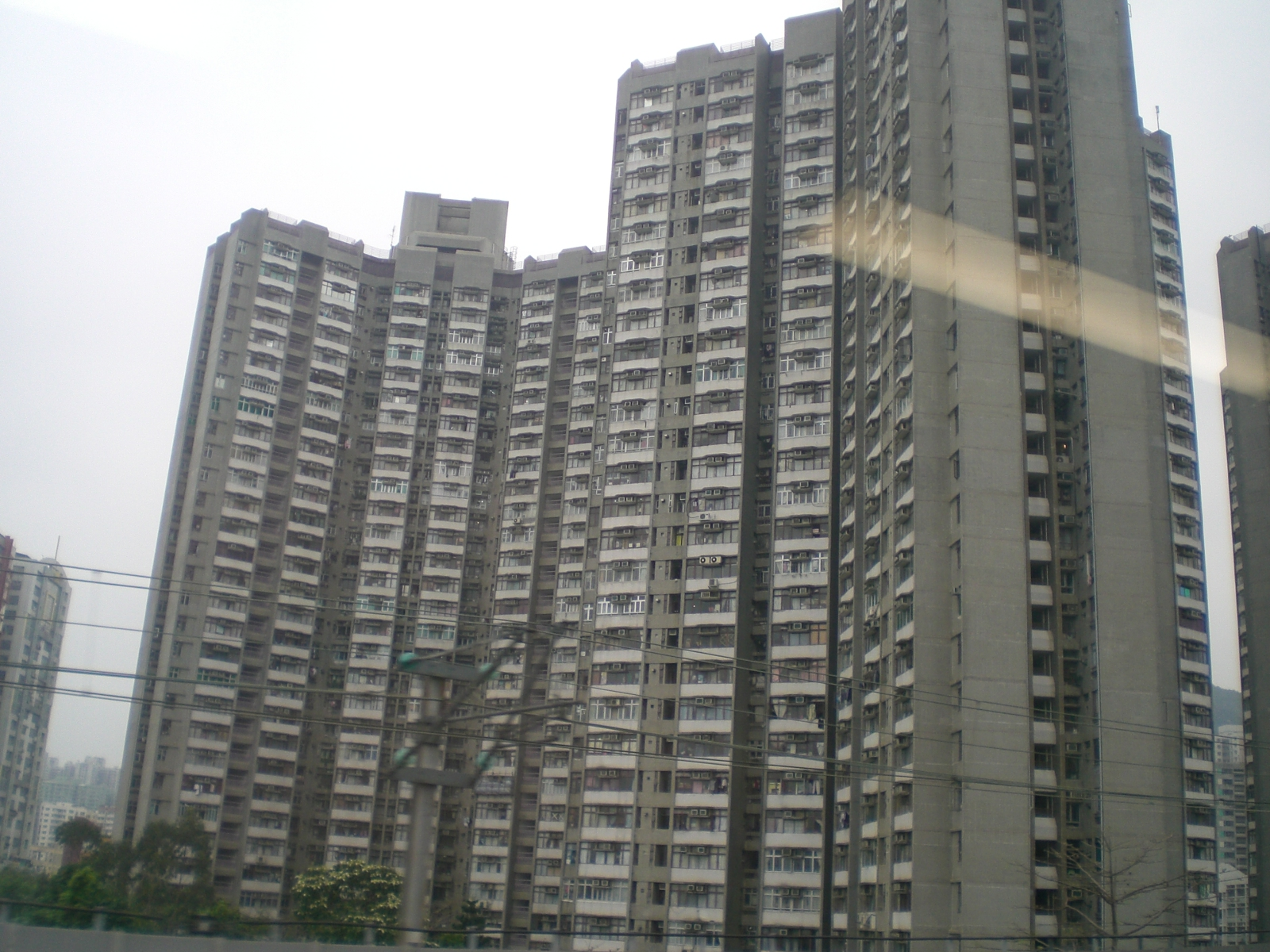 翠灣邨, Tsui Wan Estate, Chai Wan 柴灣屋苑. By me.